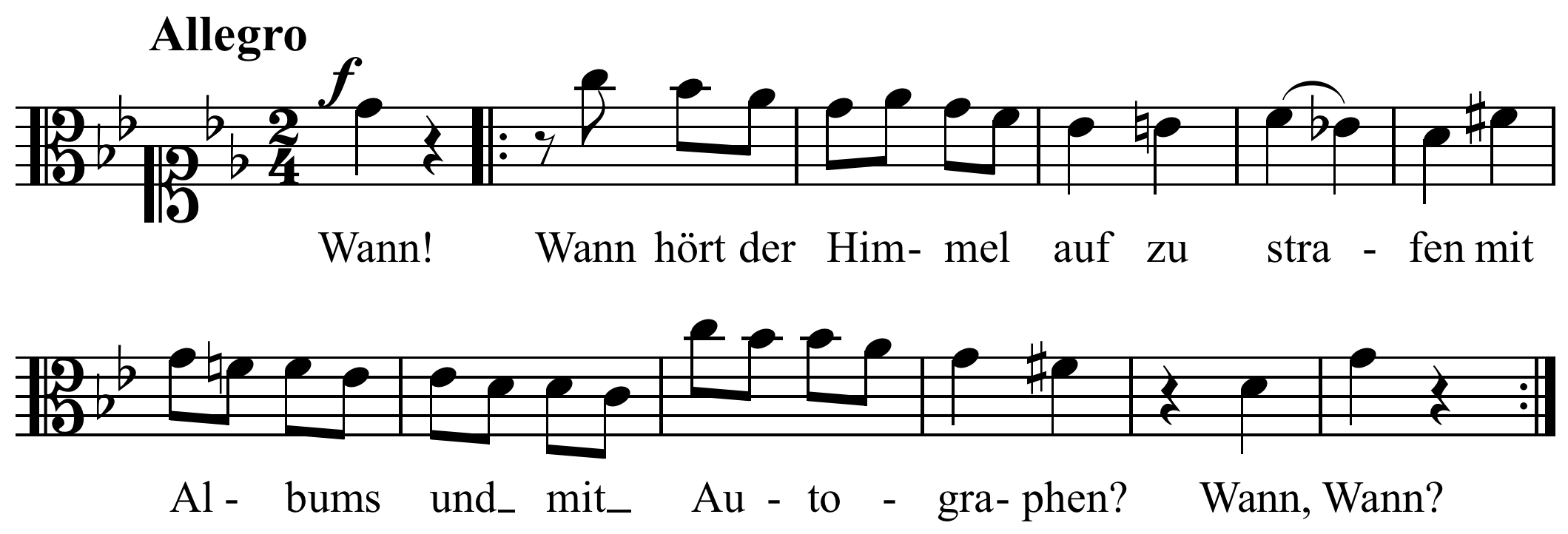 "Wann?", puzzle canon by Johannes Brahms.